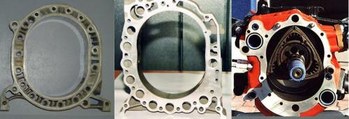 left Mazda old L10A Camber axial , middle EA871 axial water cooling only hot bow, right Diamond Engines Wankel radial cooling only in the hot bow.